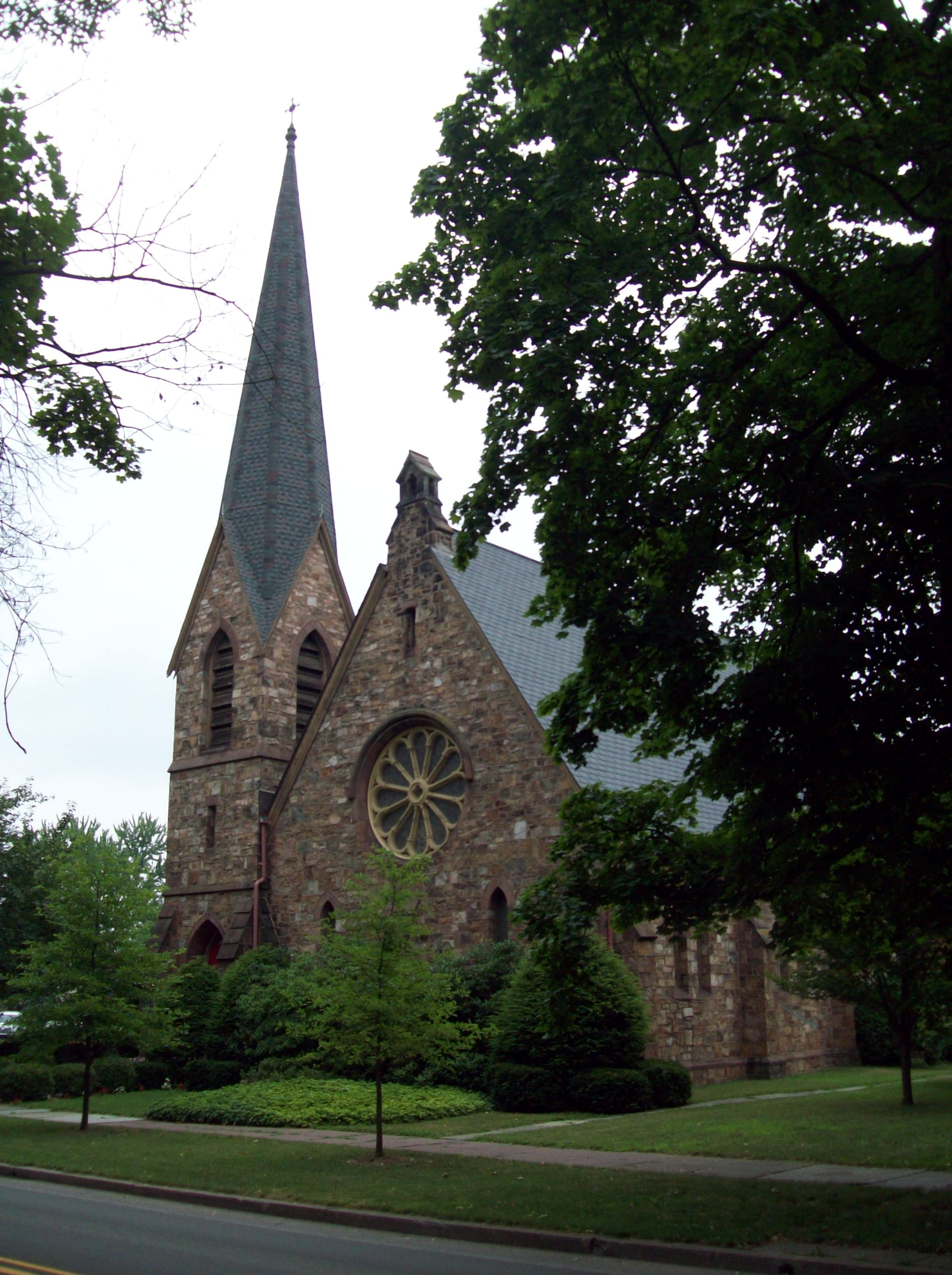 St. James Episcopal Church, Muncy PA, July 2011